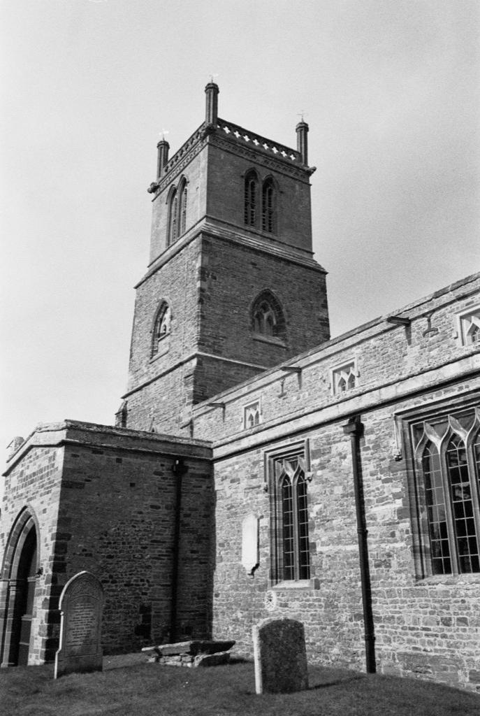 Ecton Church in Black and White.